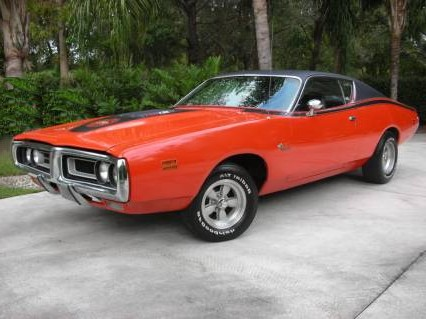 1971 Dodge Charger Super Bee